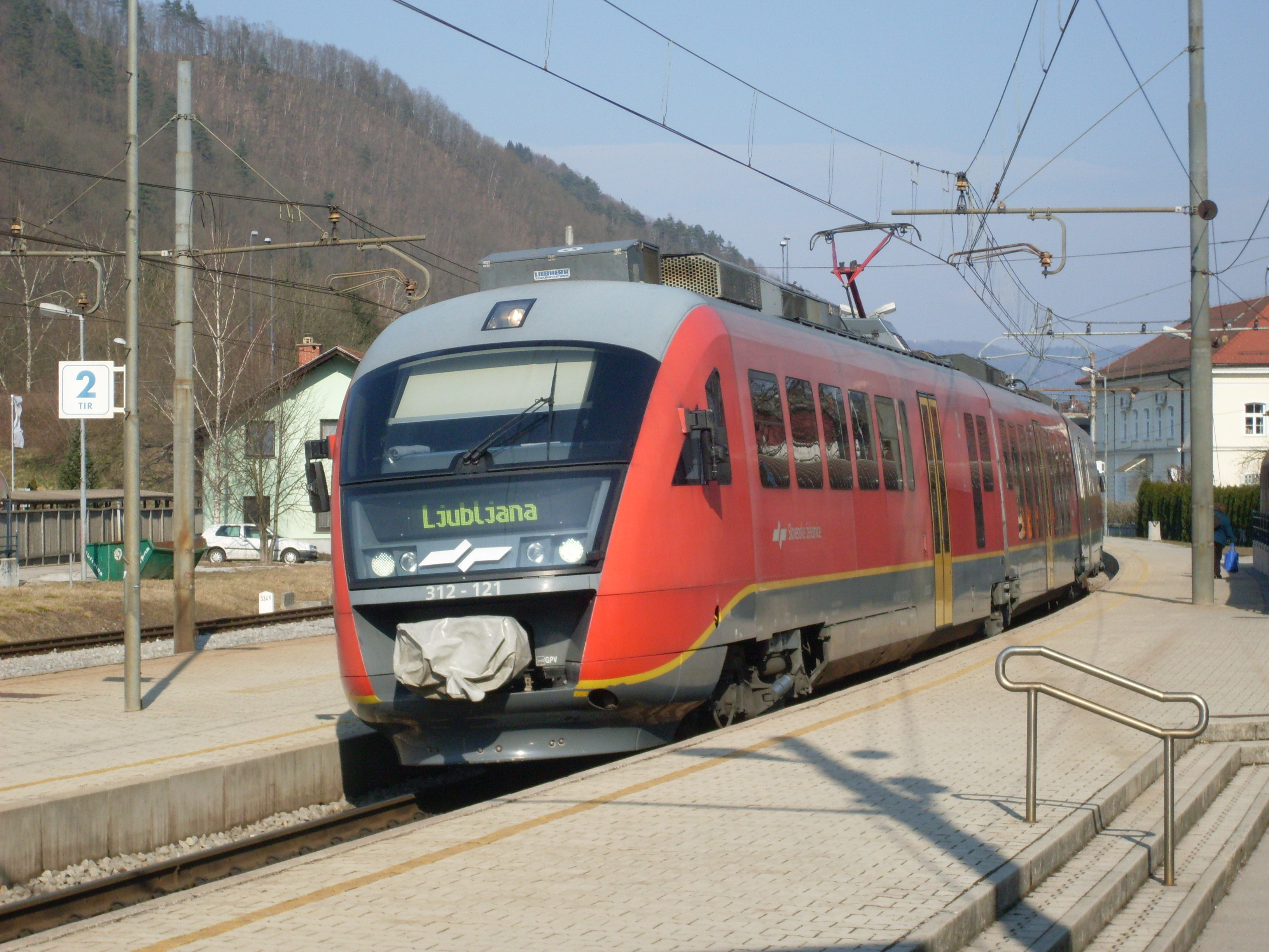 An electric multiple unit of series SŽ 312 (312-121). Popular nicknames of these trains are also "desiro", "siemens" and "kinder jajček" (Kinder Surprise). Subseries 1xx indicates a tripple multiple unit. Manufacturers: Siemens (Germany) and completed by TVT Maribor (Slovenia), axle arrangement: Bo'2'2'Bo, voltage: 3 kV DC, power 2000 kW, max. speed: 140 km/h, weight: 99 t, length: 56.1 m, width: 2.83 m, height (without pantograph): 4.15 m, axle load: 13 t, diameter of wheels (new): 850 mm, min. curve radius: 125 m, nr. of passanger seats: 188 The photo was taken at the Litija train station. About the class 312.